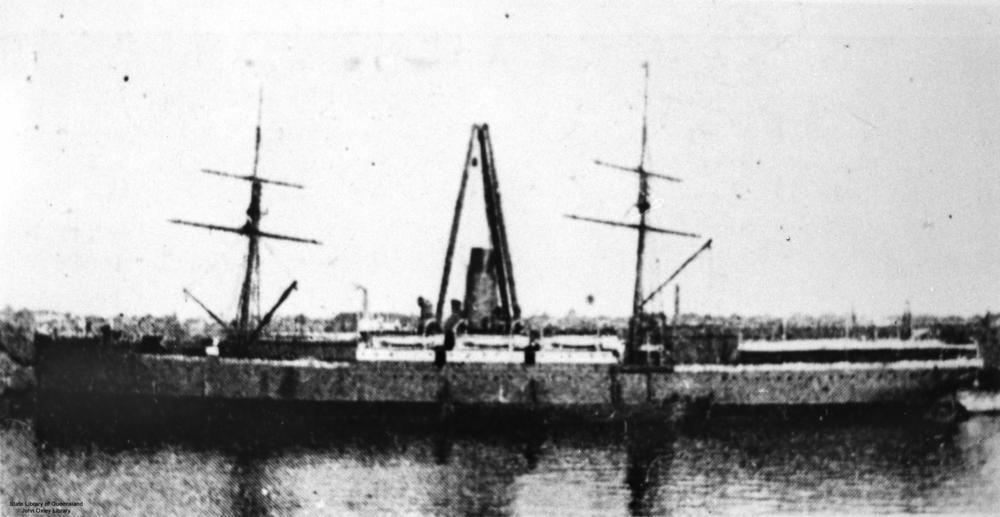 Drummond Castle (ship) Caption: Drummond Castle, of 3,663 gross tons, was built by John Elder and Co., Glasgow, in 1881. Wrecked on the Pierres Vertes Reef, two miles south of Ushant, 28 May 1896.